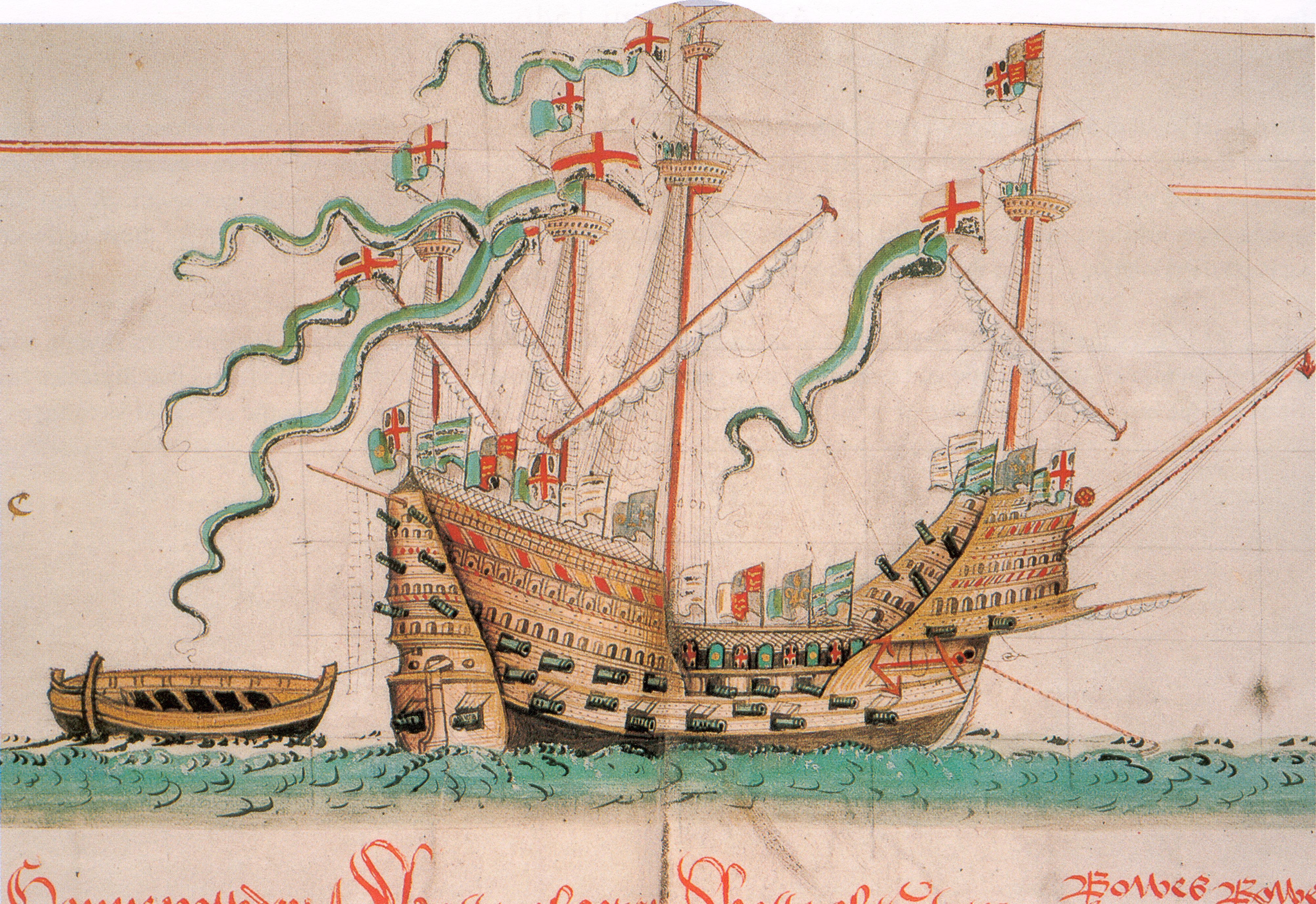 Illustration of the carrack Mary Rose. Notification about possible deletion